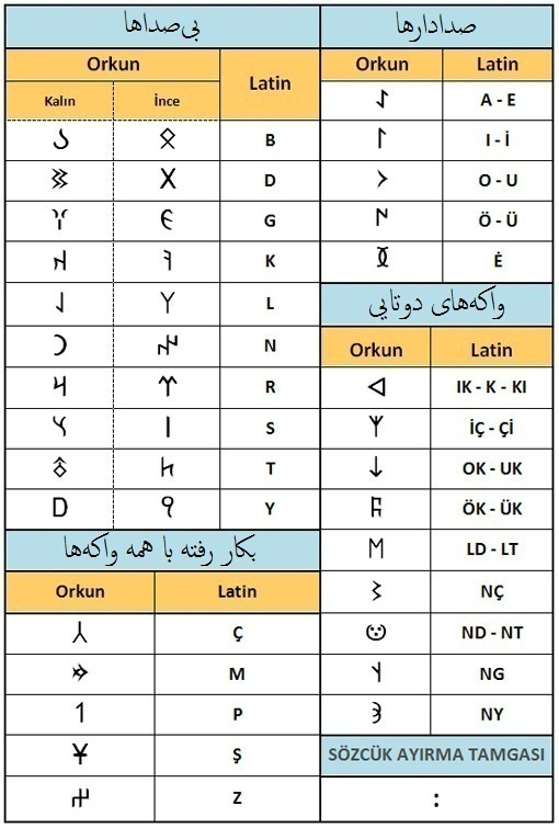 Orkhun Gokturk writing system translated in Persian.